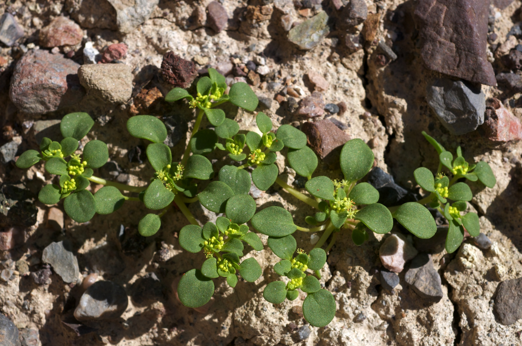 Species from California Common name: Golden Carpet Photographed in Golden Canyon, Death Valley National Park